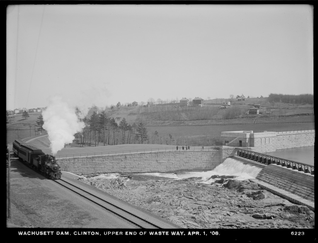 Wachusett Dam, upper end of wasteway, Bastion, Waste Weir, Clinton, MA, Apr. 1, 1908